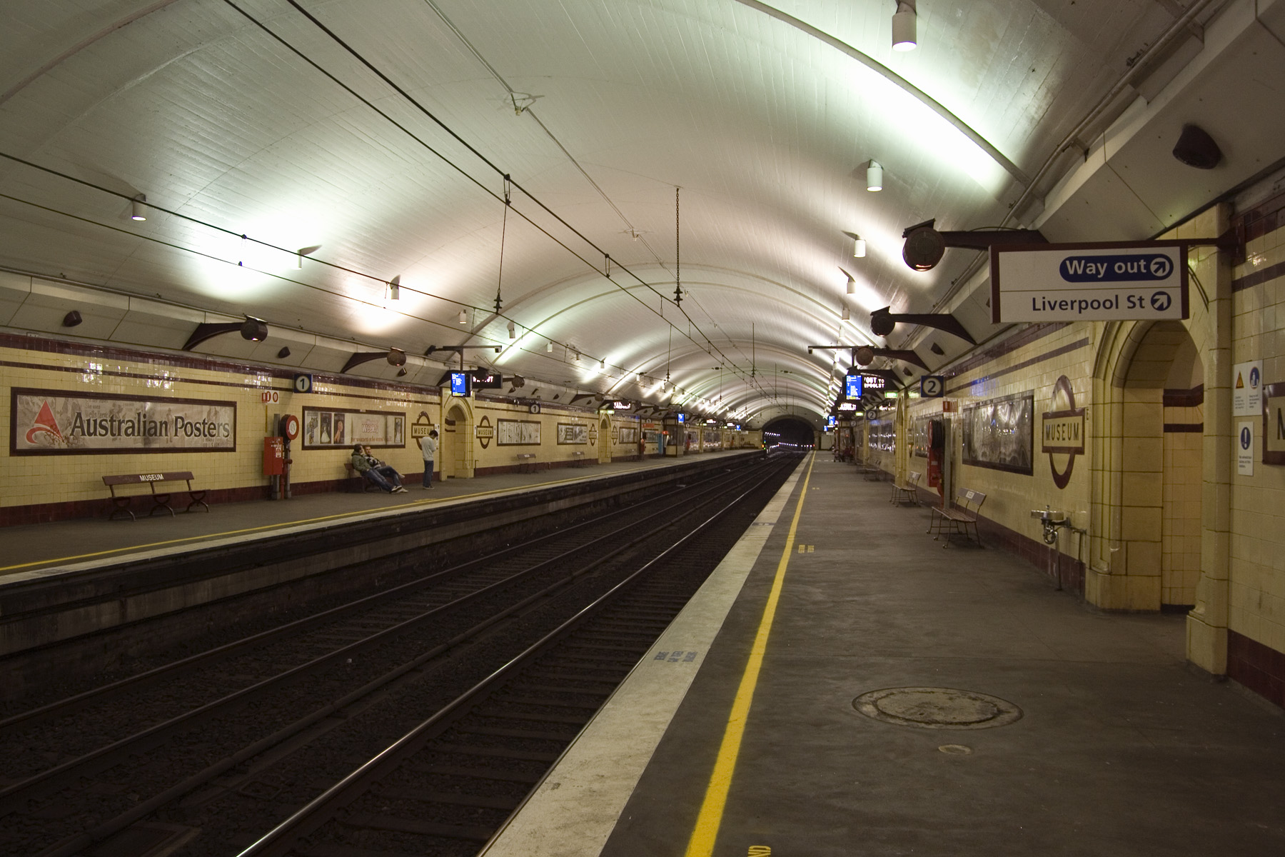 Museum station